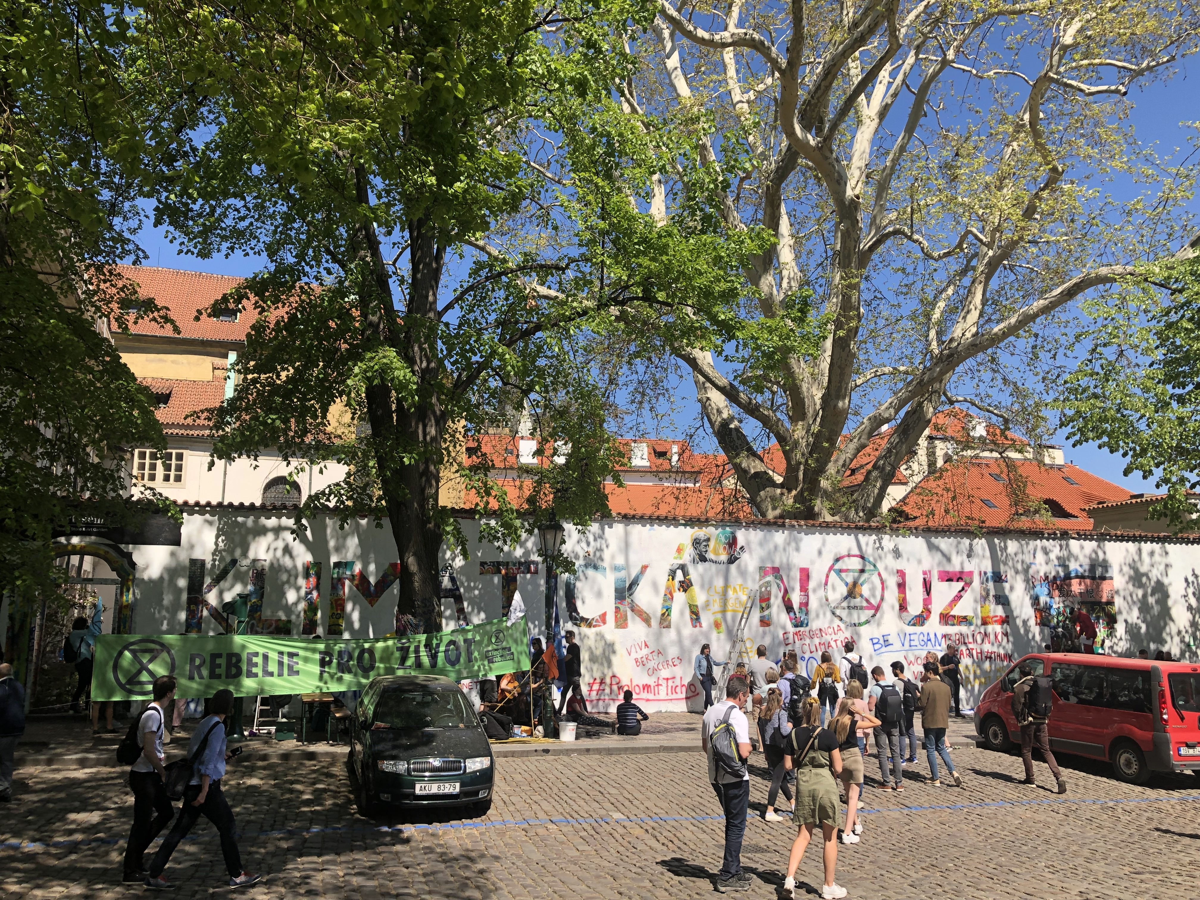 The wall on April 22nd 2019 after Extinction Rebellion repainted it